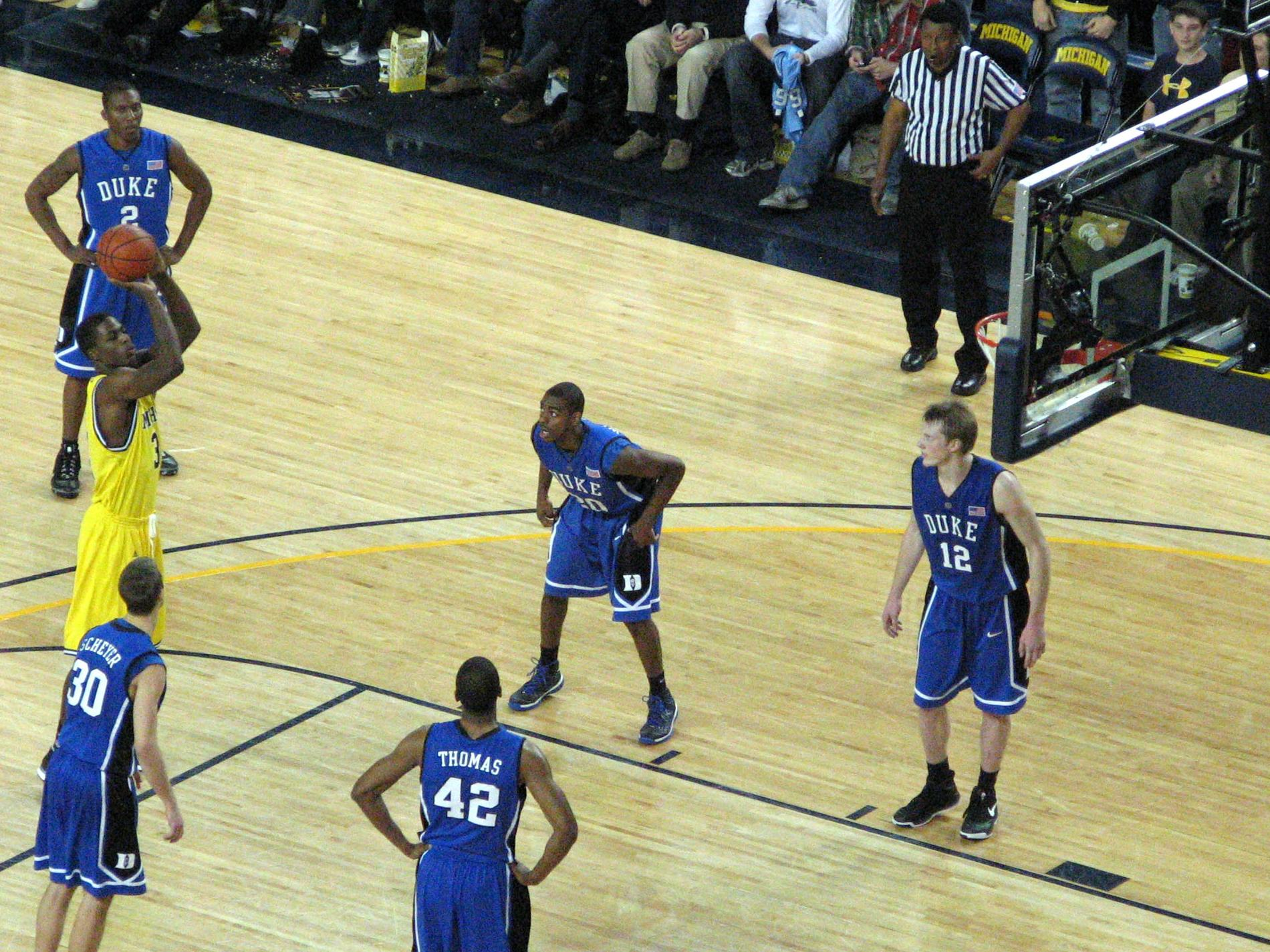 DeShawn Sims shoots free throws